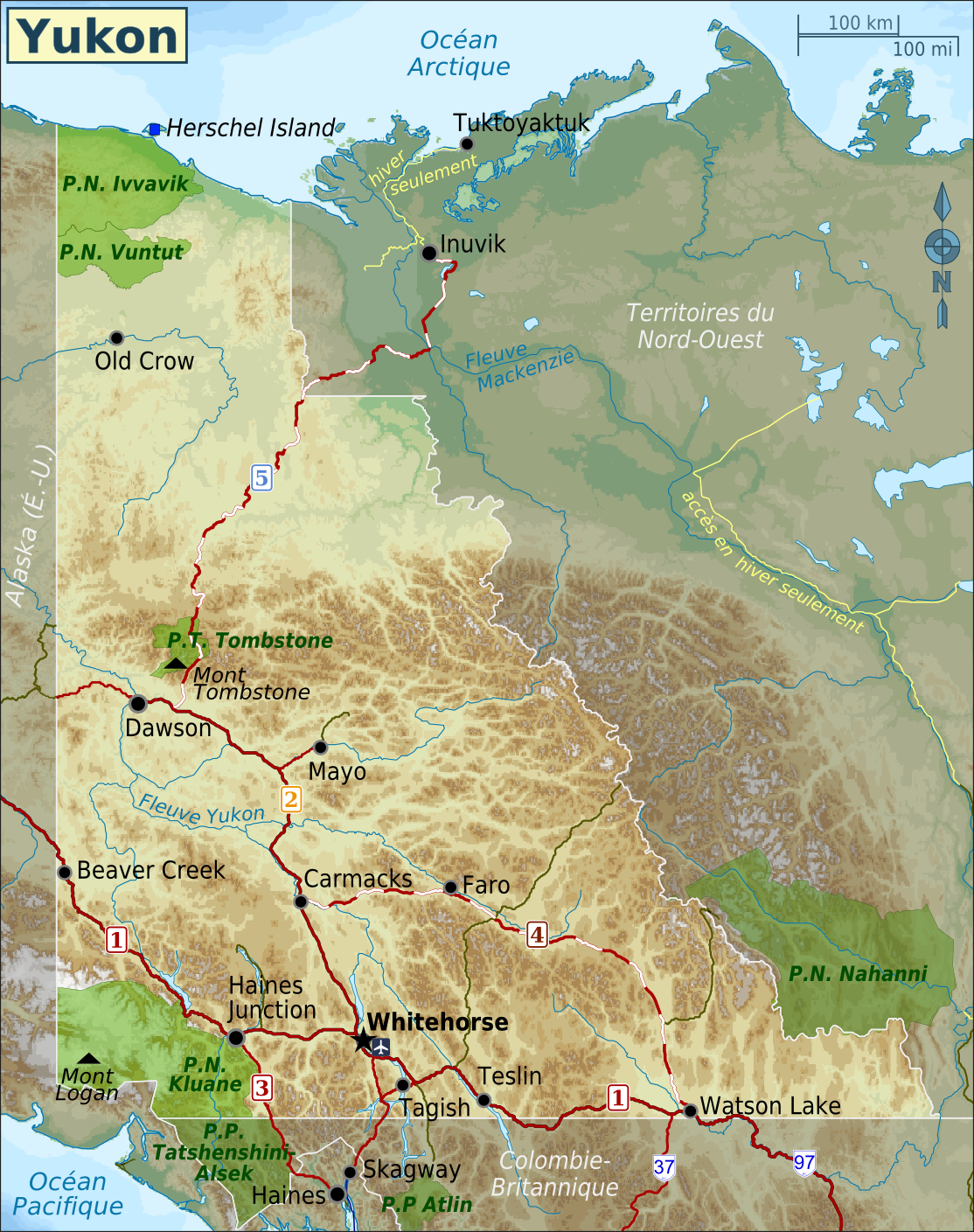 Map of the Yukon. Map is equirectangular projection, N/S stretching 200%. Geographic limits of the map: N 70.853 E 123.2 S 58.887 W 142.096 Source data for map: Topography and bathymetry: ETOPO1 Borders, roads, rivers and lakes: Natural Earth Parks: Gov't of Canada, Gov't of BC and Yukon Territory Gov't Location of points of interest: GeoBase Note: ETOPO1 and Natural Earth are in the public domain. Data from BC and the Yukon are available under the Open Government Licence. Data from GeoBase and the Government of Canada are available under an Unrestricted Use Licence. Details of each licence are available on the organization's website., Yukon Territory Map of: Yukon Territory¤.